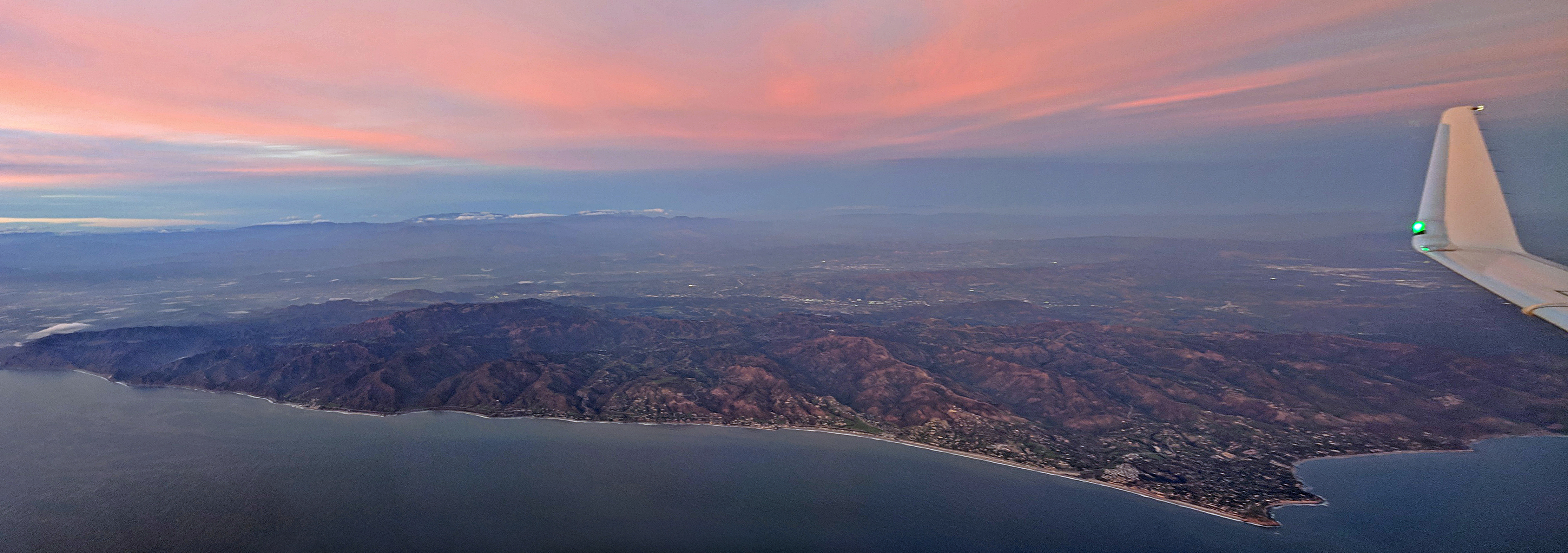 The burn scar of the Woolsey Fire in and above Malibu dominates this aerial view.